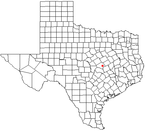 Heidenheimer, Texas location map; created with the GIMP. Made by User:Acntx.